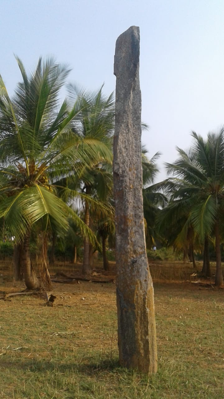 Stone pillar believed to mark the grave of the village headman. It is 30 ft in height and is said to have been erected in 800 BC per research conducted by Mysore University, evidence that Benavara is an old settlement.